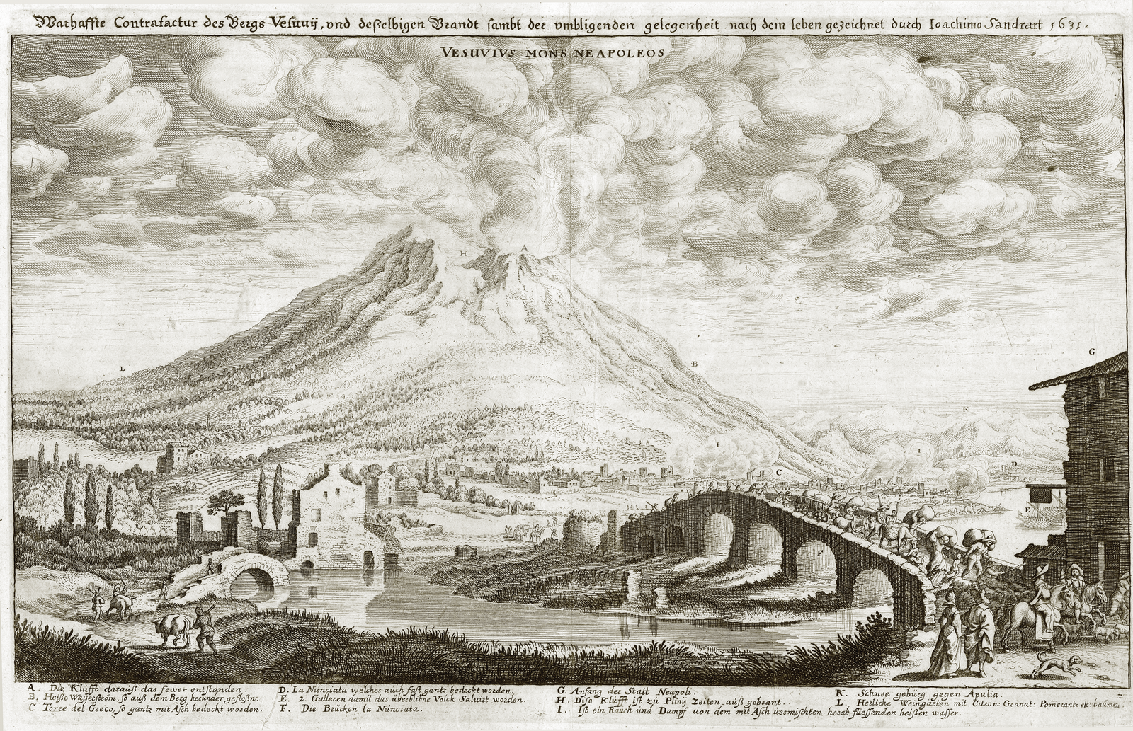 Eruption of the Vesuvius in 1631, engraving by Merian after a drawing by Sandrart